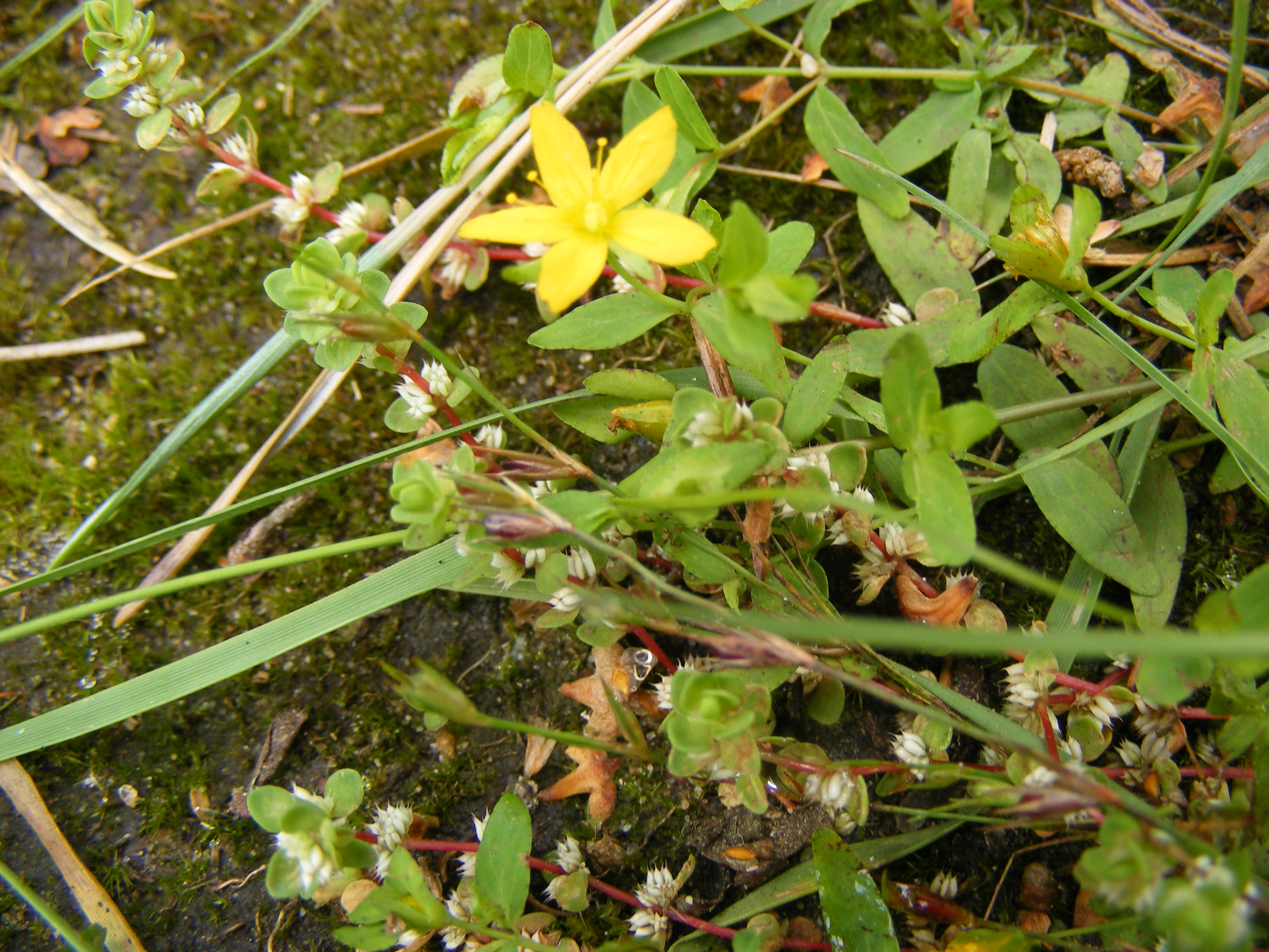 This photo shows Hypericum humifusum (yellow flowering) and Illecebrum verticillatum